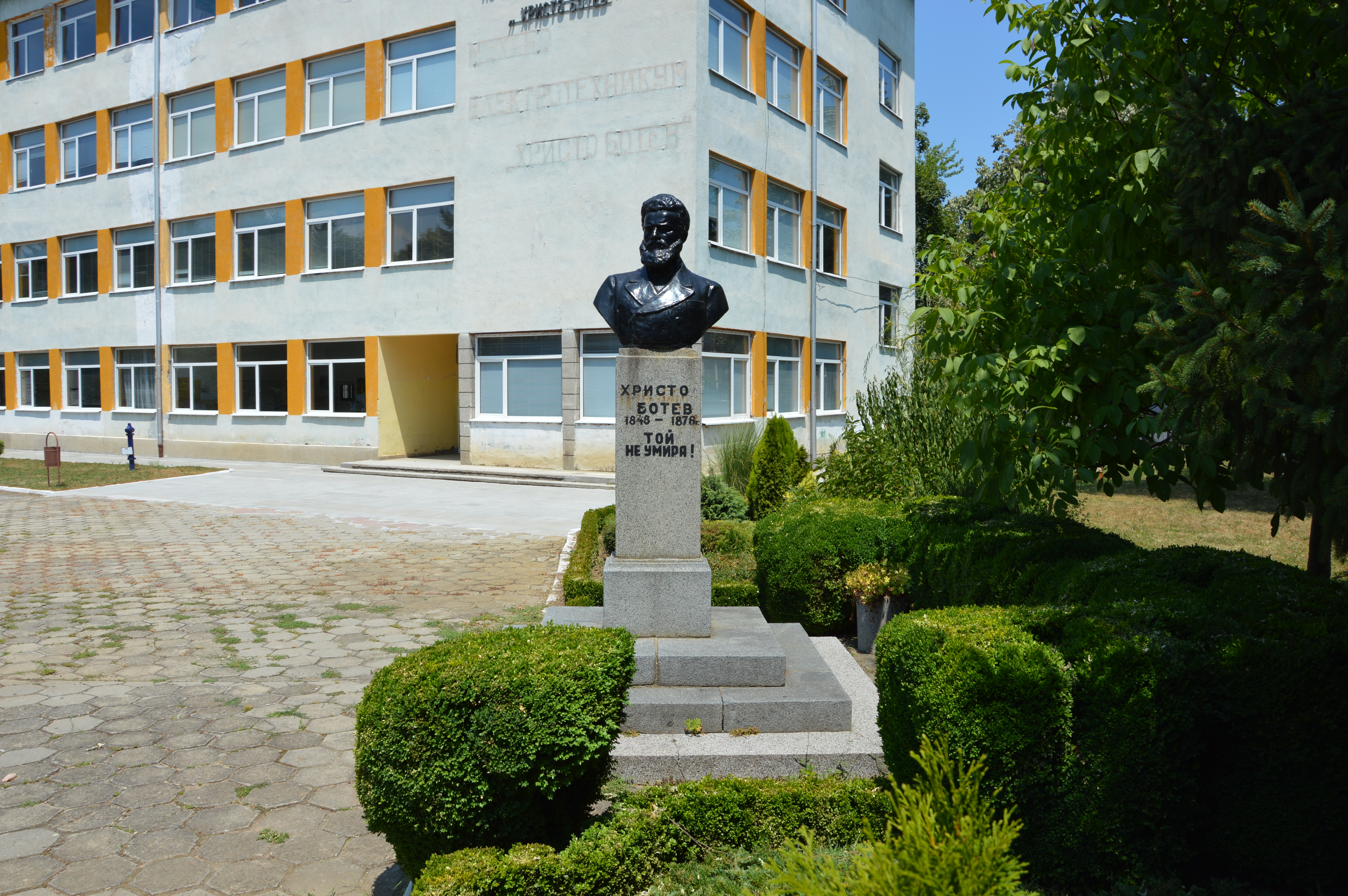 The memorial of Hristo Botev in front of the Professional Gymnasium of Technology and Management "Hristo Botev" in Botevgrad, Bulgaria.